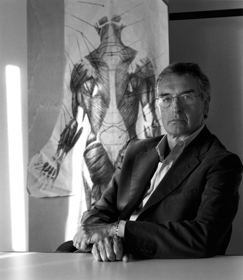 Lino Dainese, Dainese founder and owner